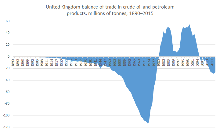 Chart showing the balance of UK imports and exports in crude oil and petroleum products, million of tonnes, from 1890 to 2015. Data from 'Crude oil and petroleum: production, imports and exports 1890 to 2015' by the Department for Business, Energy and Industrial Strategy.